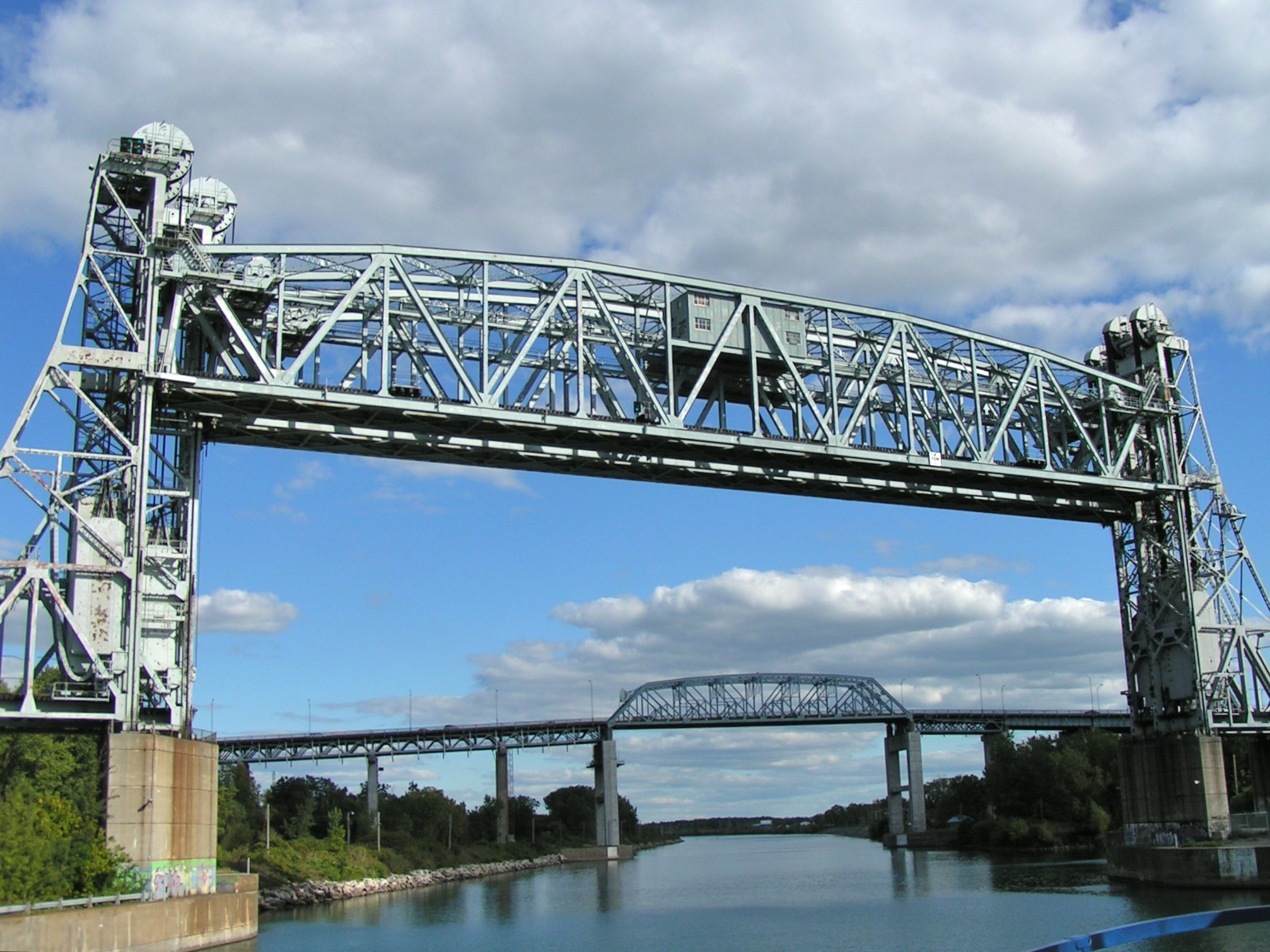 A side-by-side pair of identical vertical-lift bridges in Greater Montreal, Quebec, Canada, carrying a double-track rail line over the St. Lawrence Seaway. More specifically, the location is in Kahnawake, just across from the city of Montreal proper. The twin lift bridges over the Seaway are on the same rail line as the Saint-Laurent Railway Bridge, which crosses the St. Lawrence River, and are only about 1,200 feet (370 m) south of that longer bridge. In the background (to the east) is the southern section of the Mercier Bridge (road bridge on Quebec Route 138).